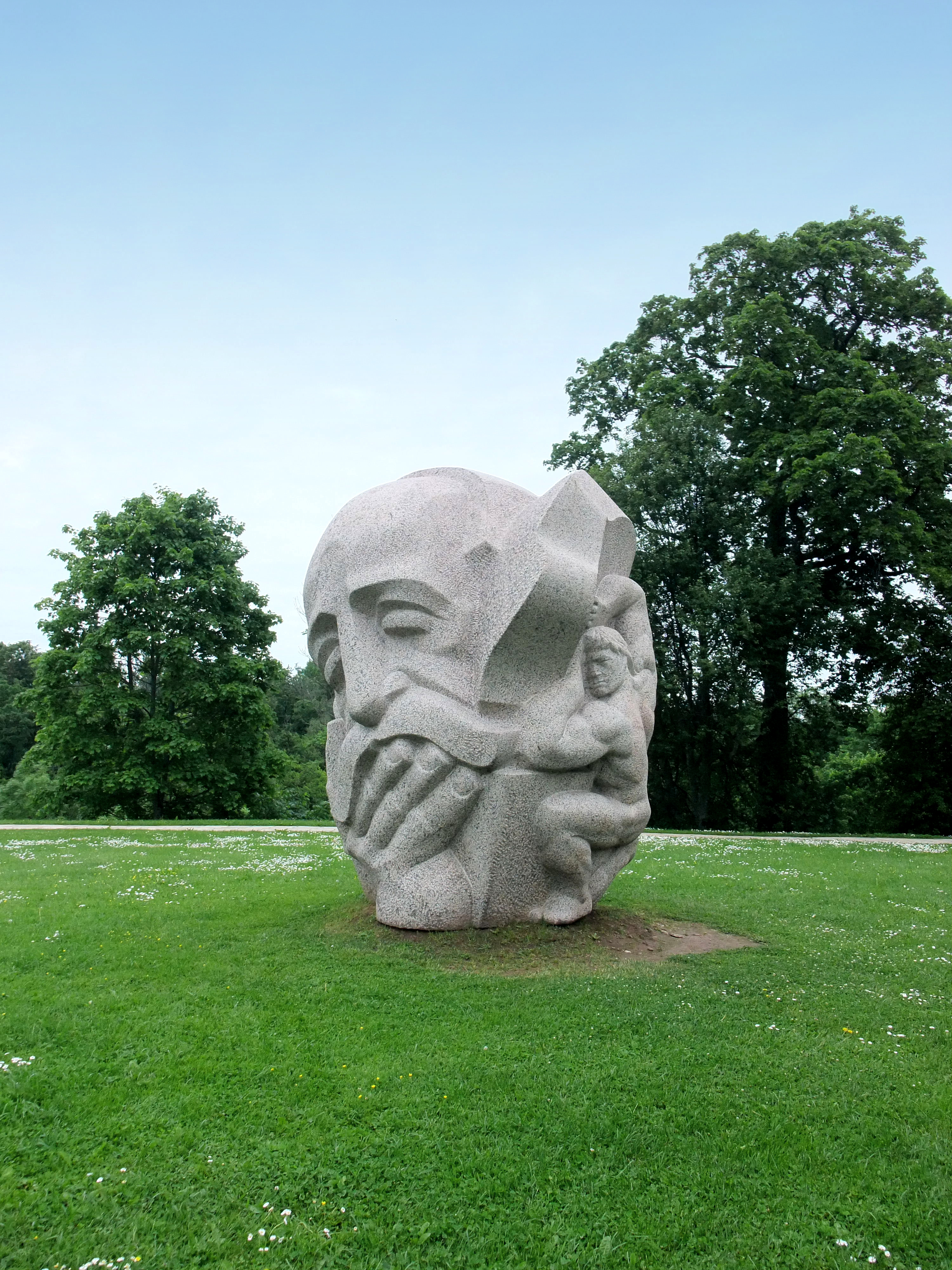 Sculptur near Sigulda, Latvia